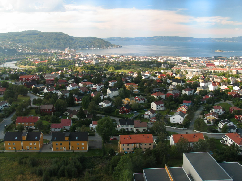 Trondheim skyline, view from Radio Tower